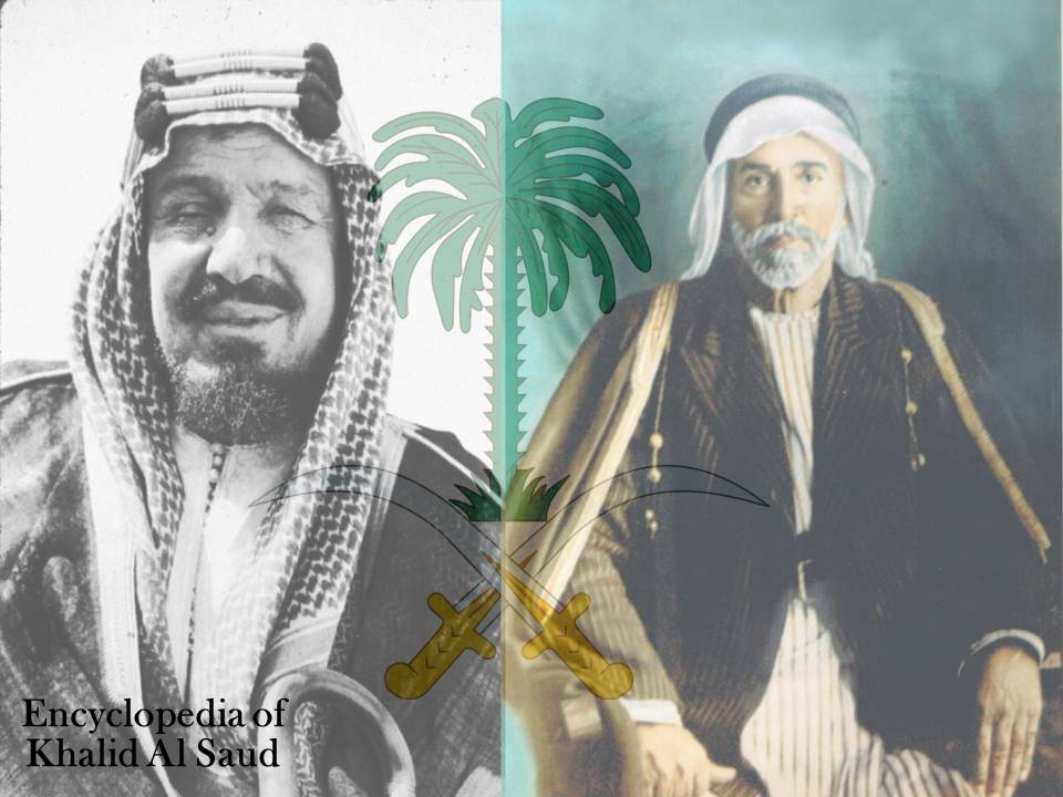 Photograph refers to the political relationship between King Abdulaziz Ibn Saud and Prince Rashed Al Khuzai